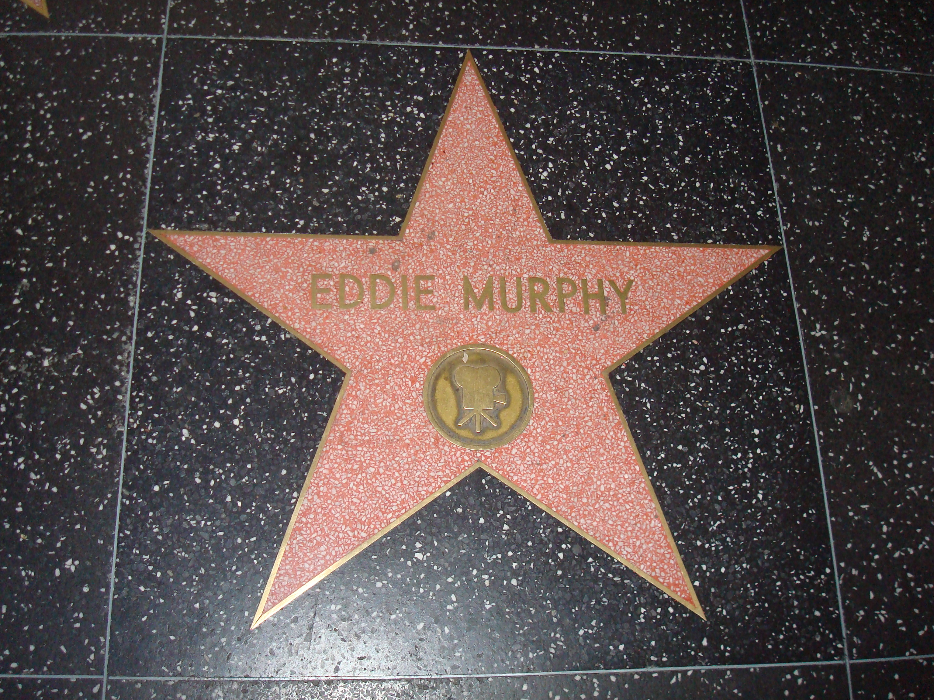 This photo depicts Eddie Murphy's star on the Hollywood Walk of Fame.